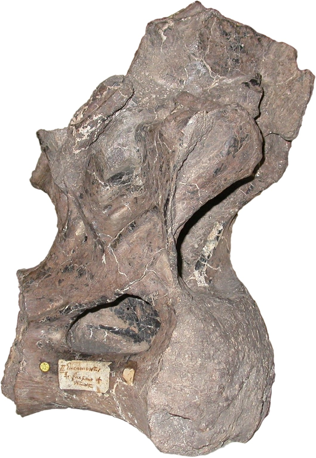 Specimen BMNH R90a, Neosauropoda indet. It is cataloged as Eucamerotus, but it is undescribed. The dorsal vertebra is part of a series of two (with R90b) and is probably from a macronarian, and most likely a somphospondylian.